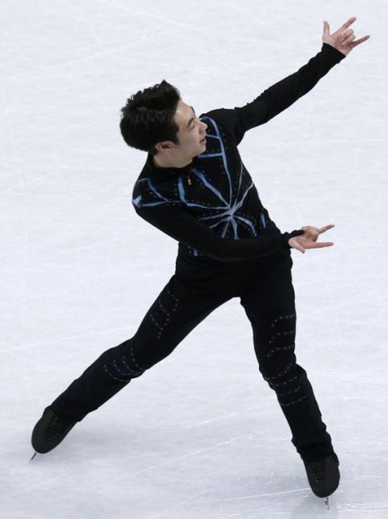 Boyang at 2017 WC